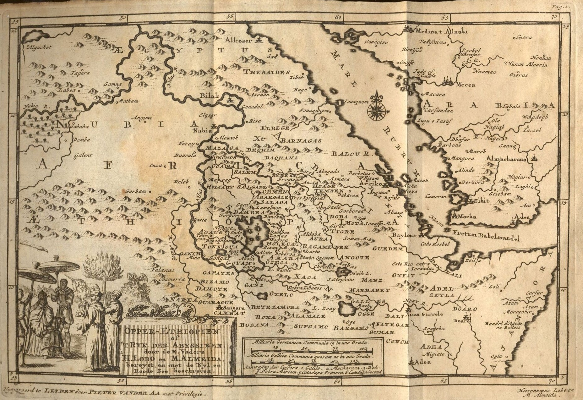 Opper-Ethiopien of 't ryk der Abyssinen. By Jeronimo Lobo and Manuel de Almeida. Published in Leyden by Pieter Vander Aa, 1707.